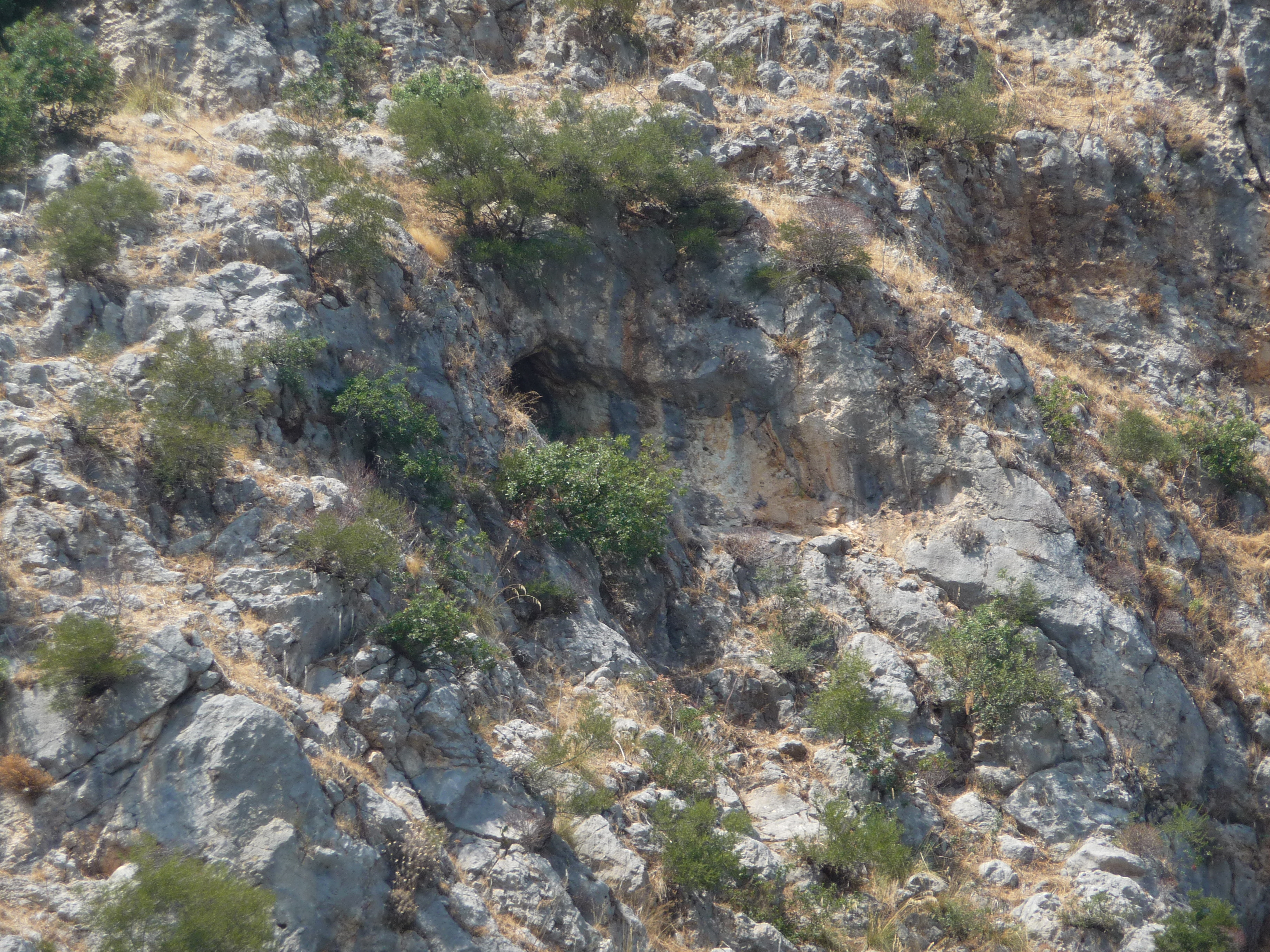 Sant'Angelo Cave in Stilo (Calabria)